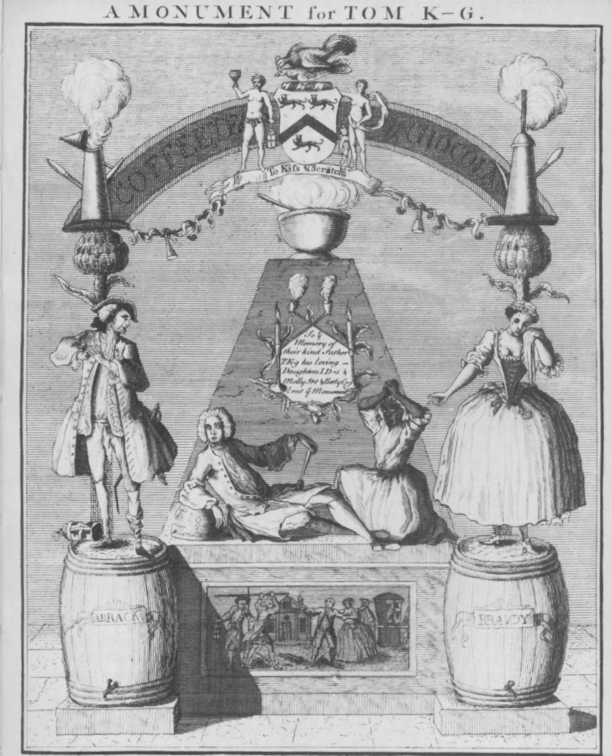 Satirical print of a fictional monument to Tom King, the Highwayman